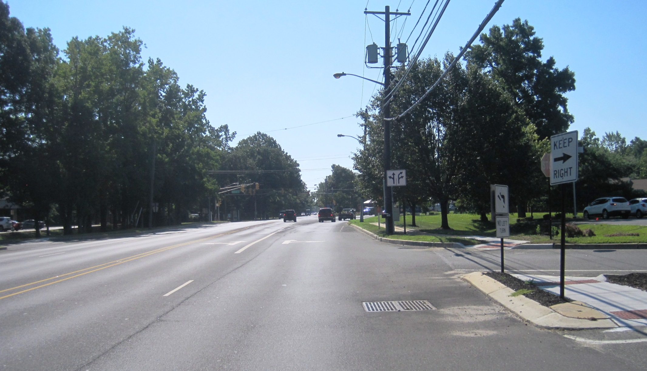 Photo showing Fairview, New Jersey, an unincorporated community within Medford Township. Photo taken along southbound Stokes Road (County Route 541) approaching Skeet Road / Dixontown Road.